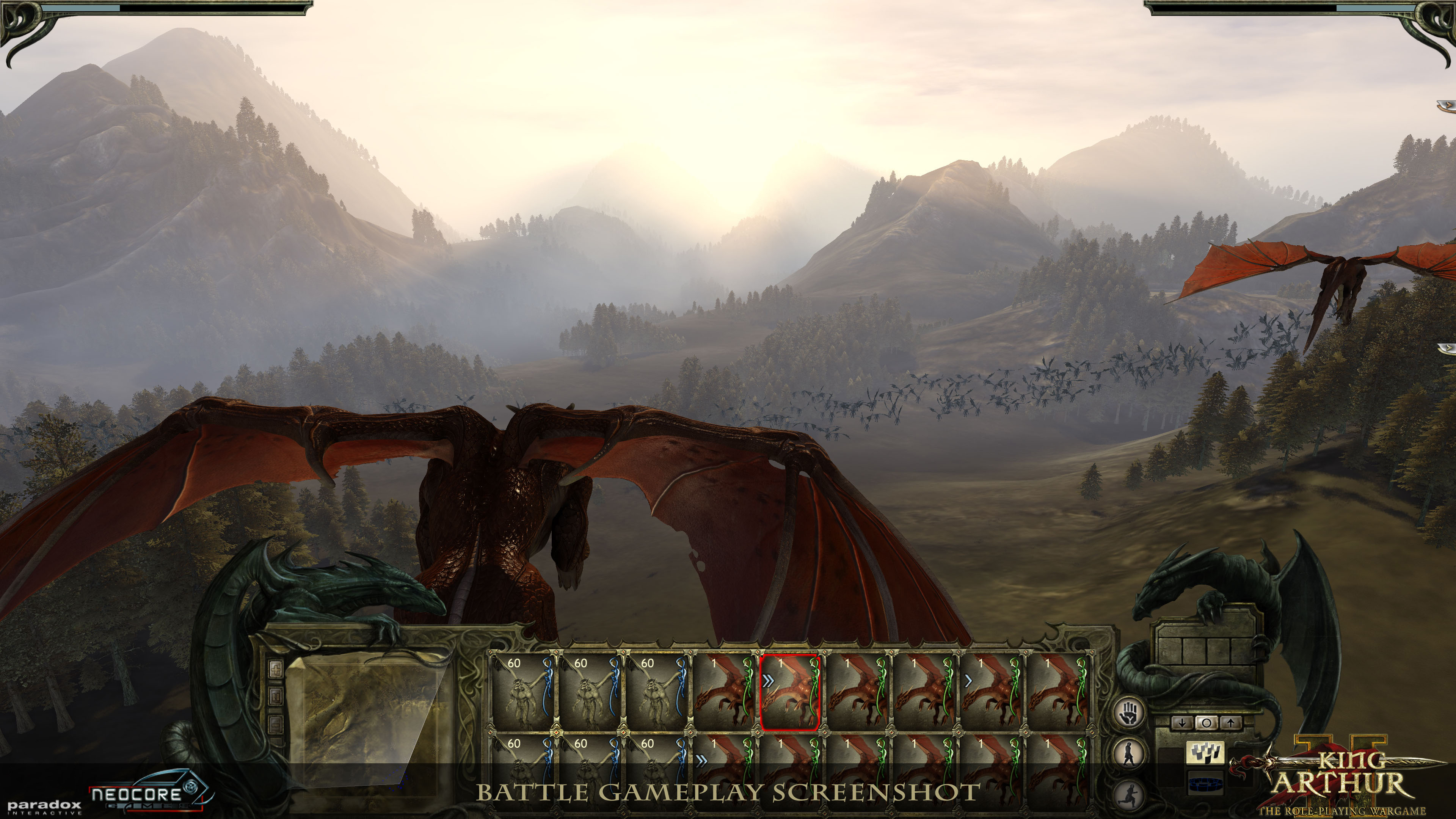 Image is of a screenshot from King Arthur II, a NeocoreGames video game.